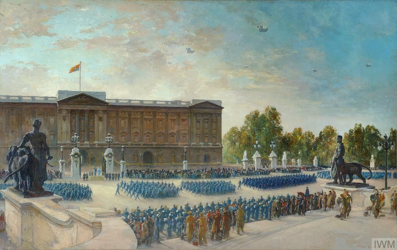 Battle of Britain Anniversary, 1943 - RAF Parade at Buckingham Palace image: A Royal Air Force anniversary parade taking place directly outside Buckingham Palace. Columns of RAF personnel in blue uniform march from left to right. They are watched by fellow RAF personnel and British soldiers in the foreground and by a mixture of civilians and military personnel standing in front of the palace gates.